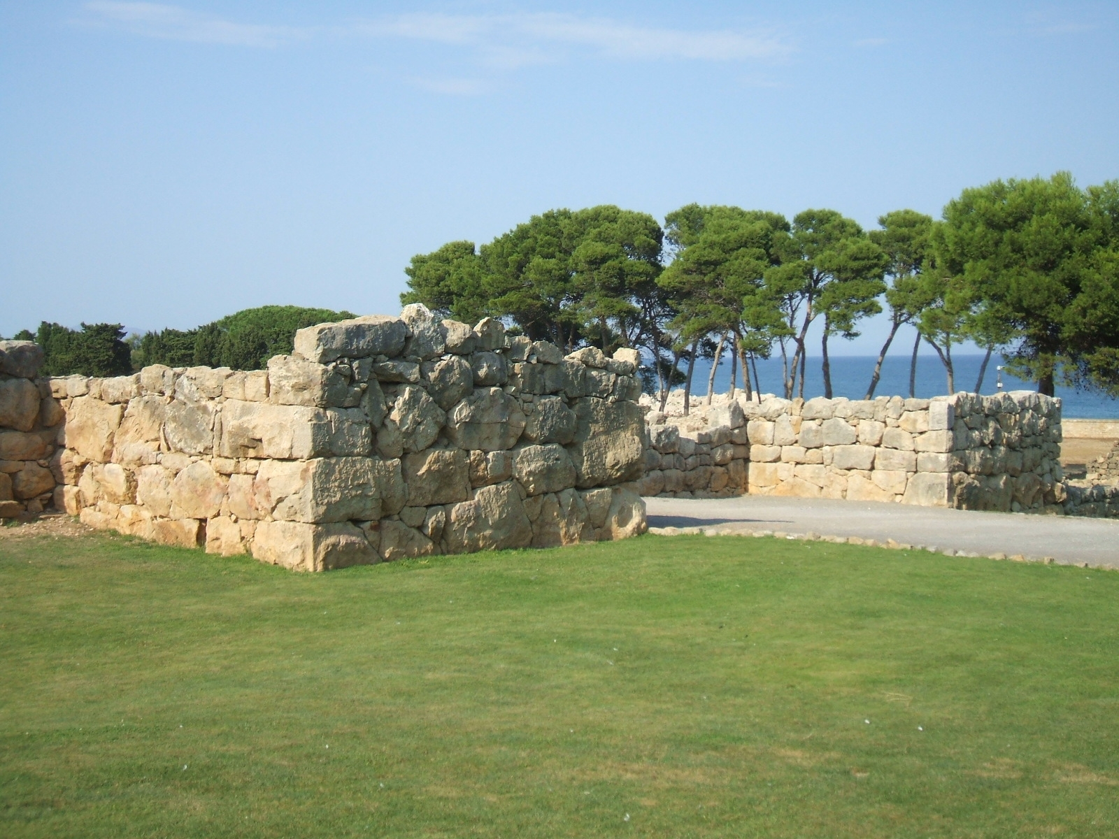 Empuries Archaeological Site (Catalunya, Spain) : Greek ruins of Neapolis ; Southern Gate.